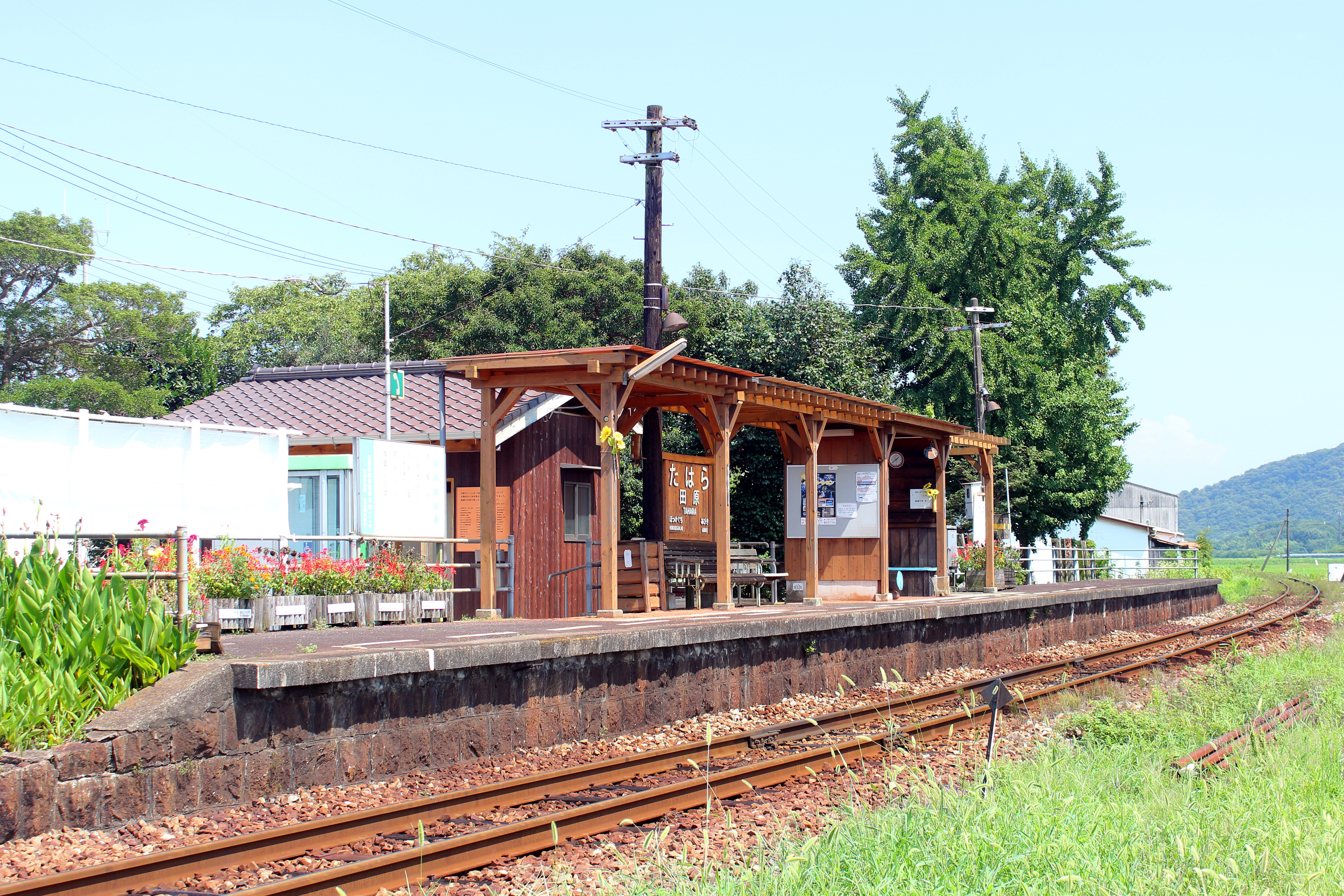 Tahara Station on the Hojo Railway in Hyogo Prefecture, Japan